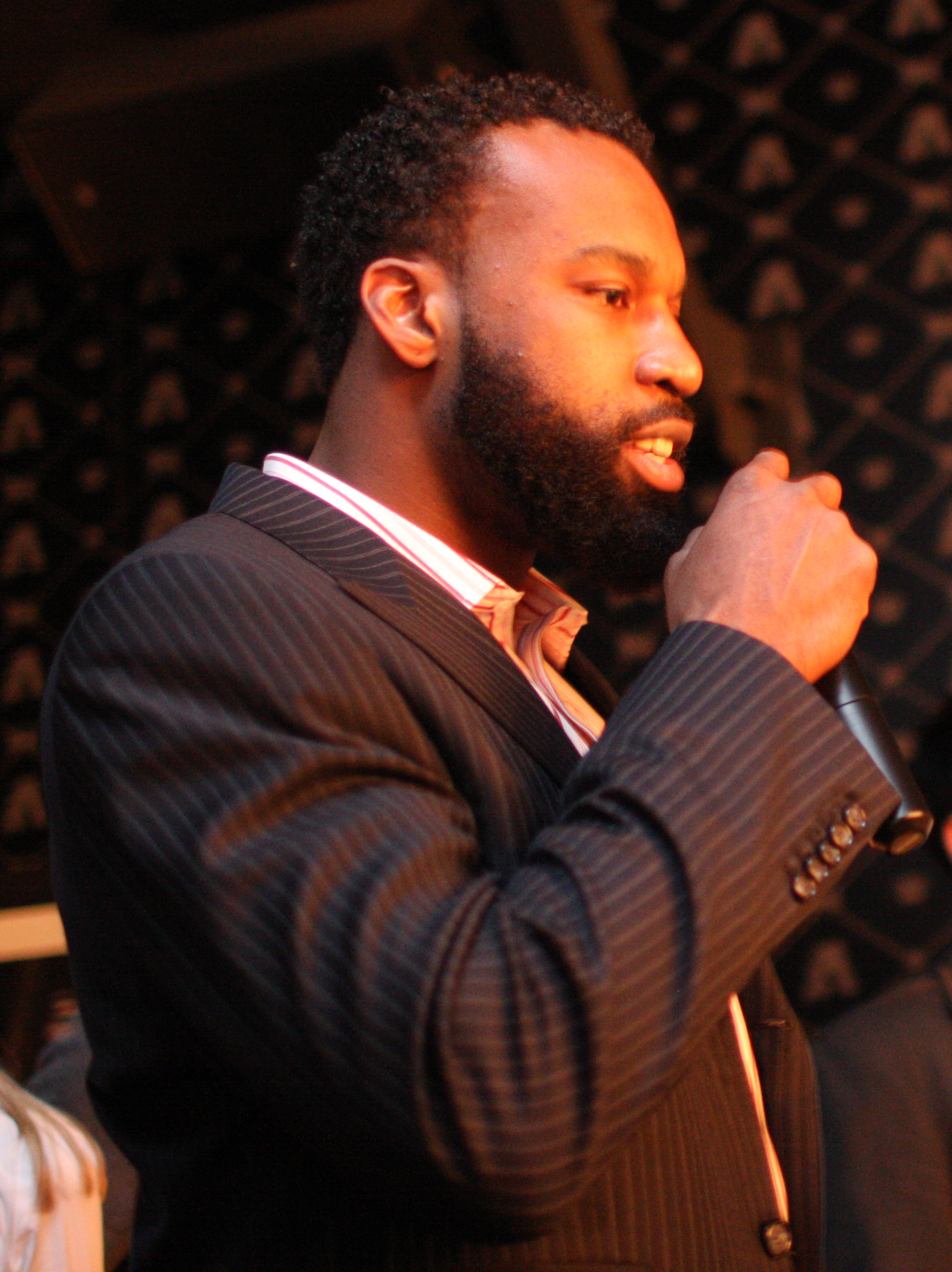 (CC) Brian Solis, , . Feel free to use this picture. Please credit as shown.